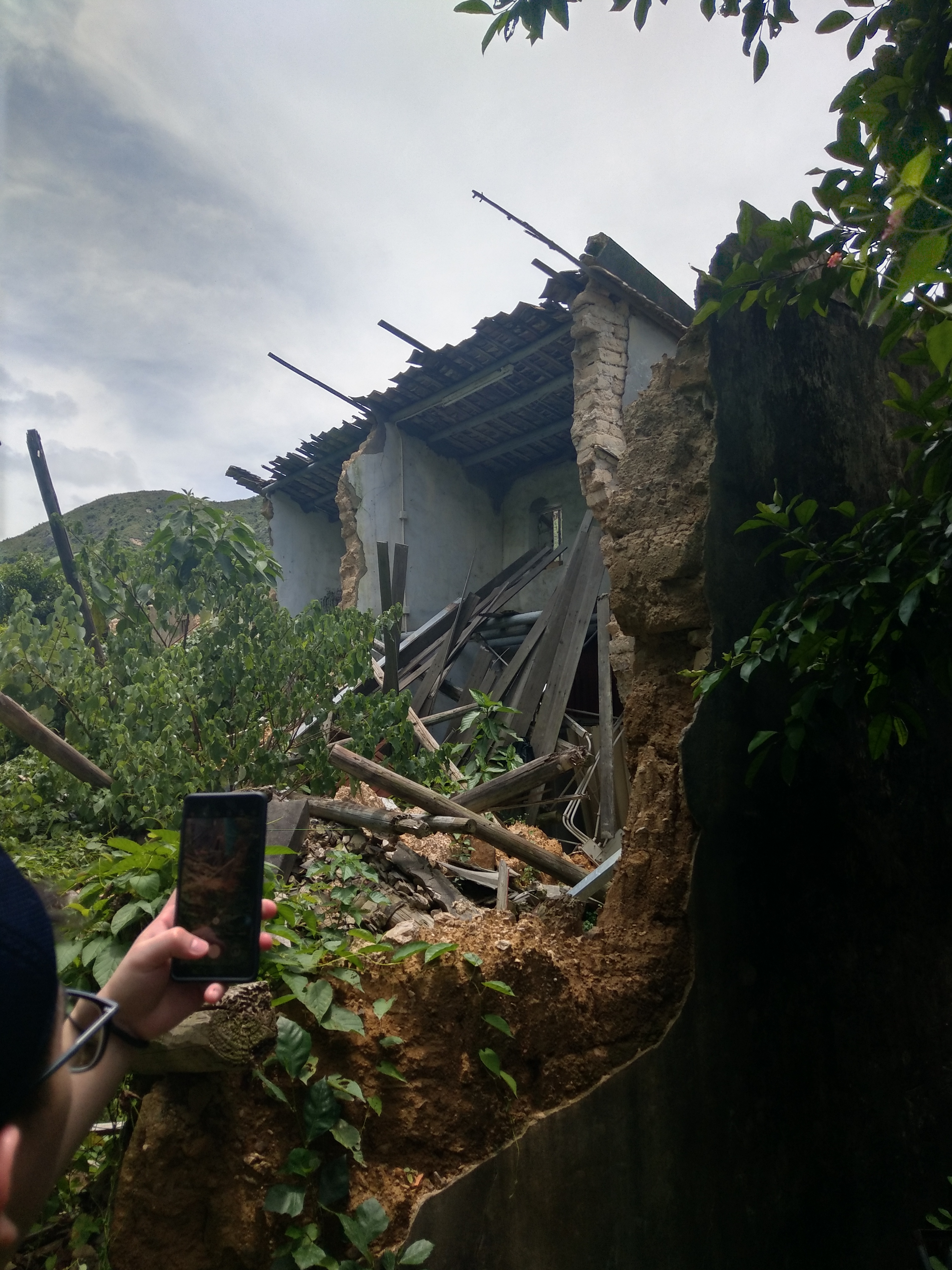 The collapsed old village houses in Tai Long Village